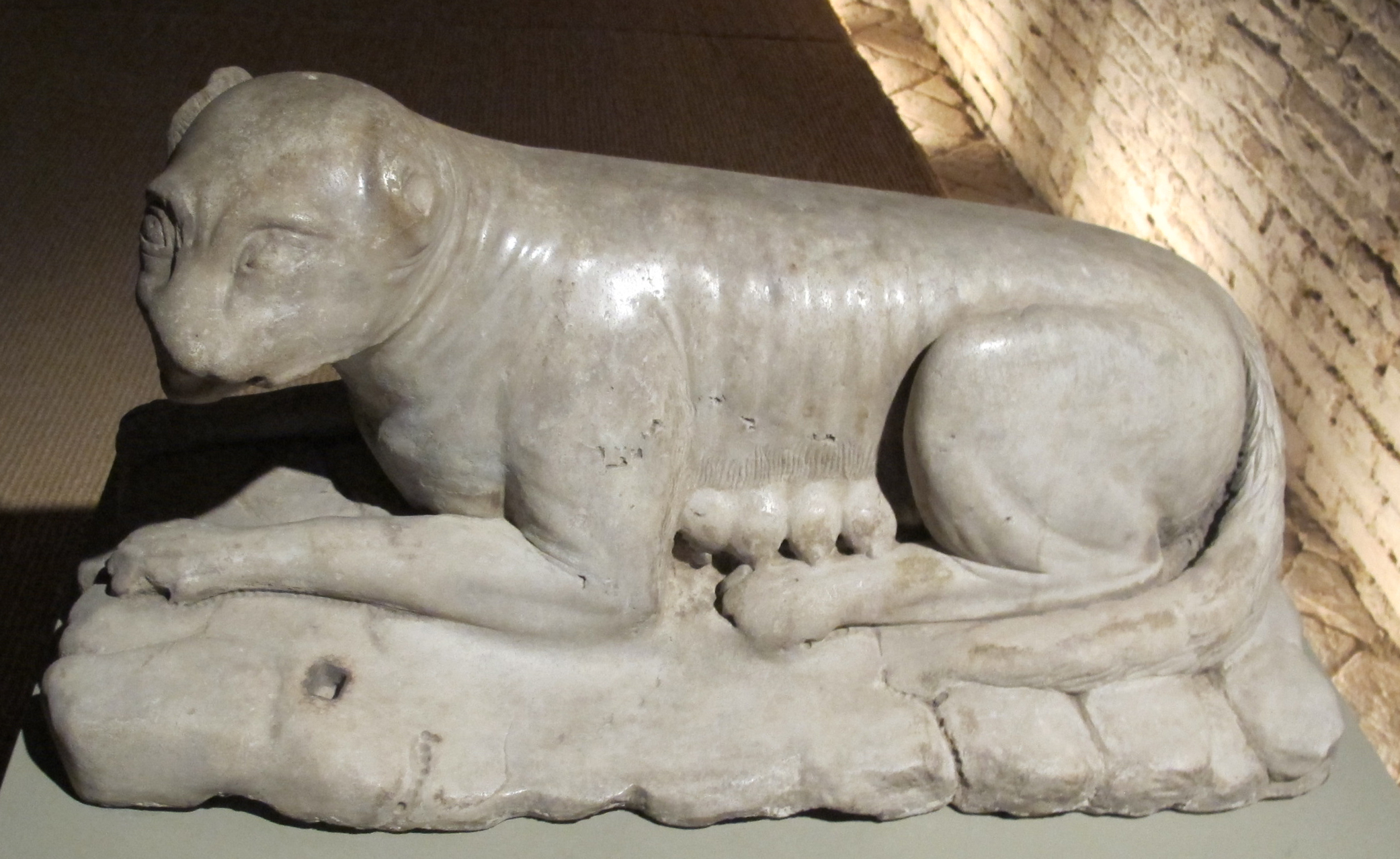 Santa Maria della Scala Hospital (Siena)